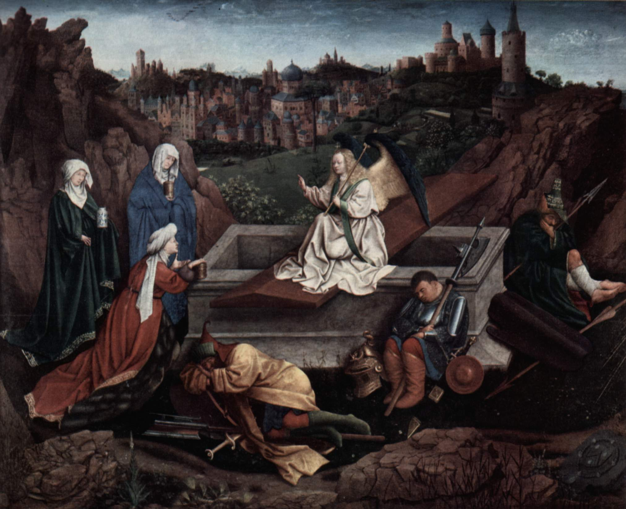 Fragment, possibly from an altarpiece to the Virgin Mary.